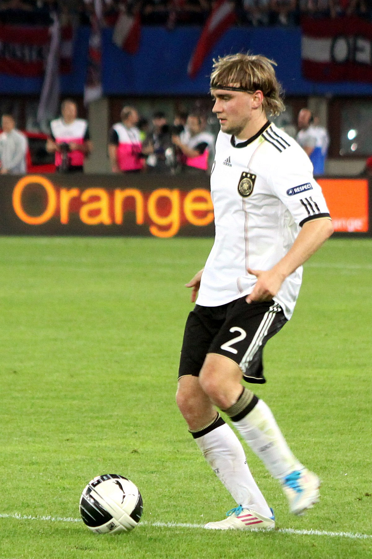 Marcel Schmelzer (Borussia Dortmund), german national football team